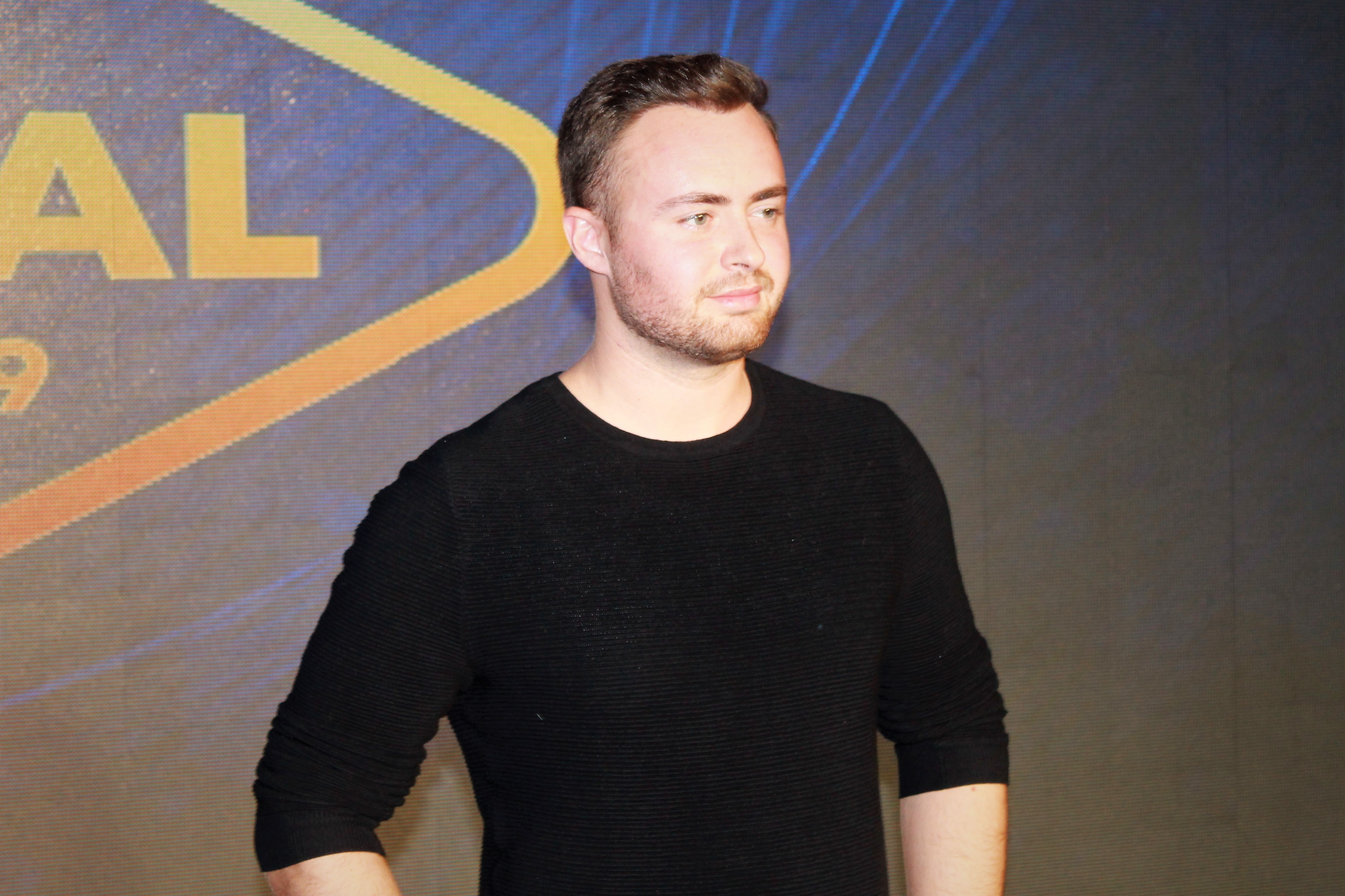 A Dal 2019 participant: Olivér Berkes